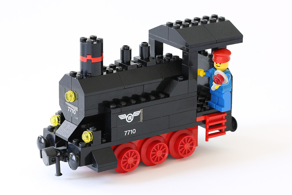 lego train 7810